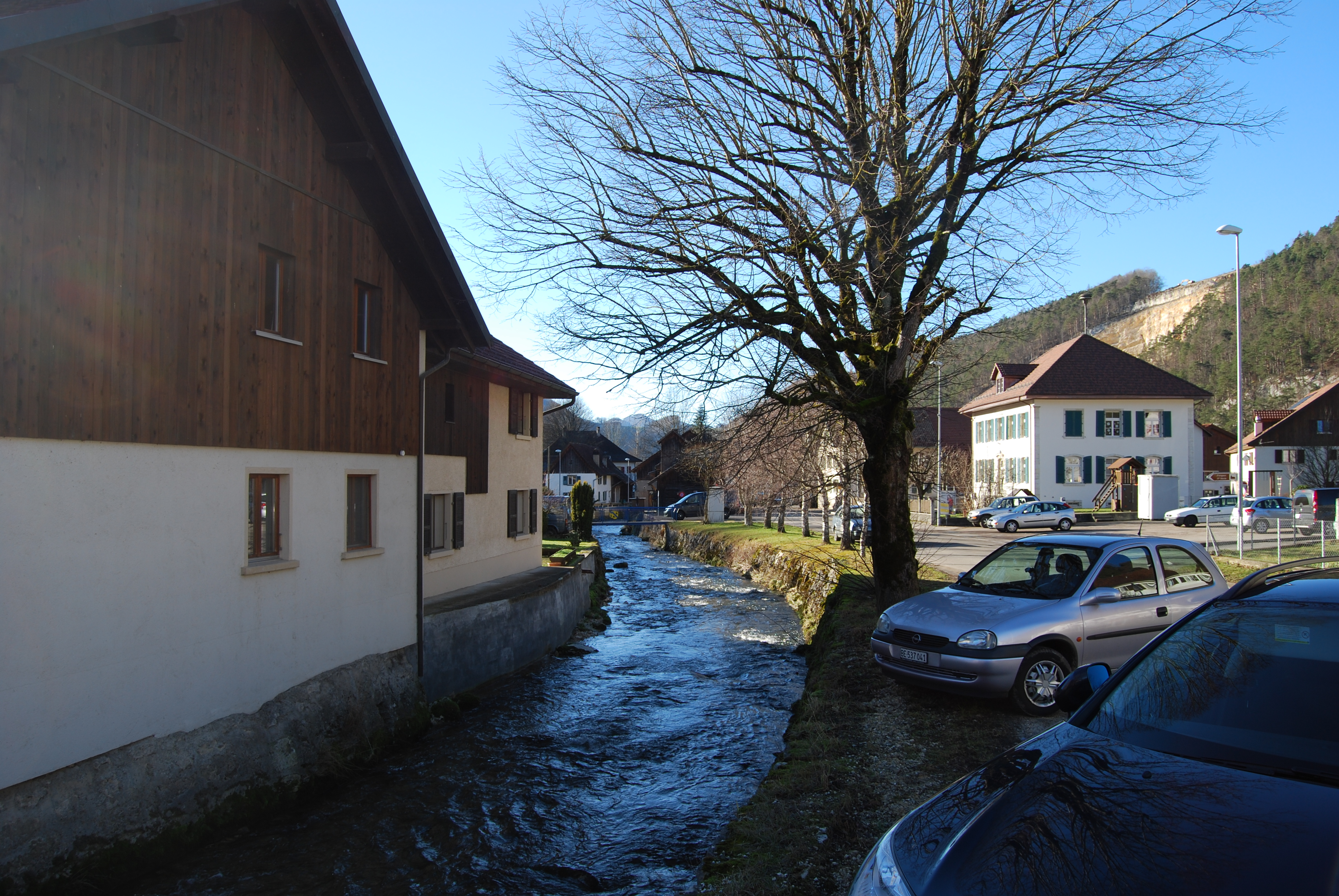 Stream Gabiare at Vermes, canton of Jura, SwitzerlandEsperanto: Rivereto Gabiare en Vermes, Kantono Ĵuraso, Svislando